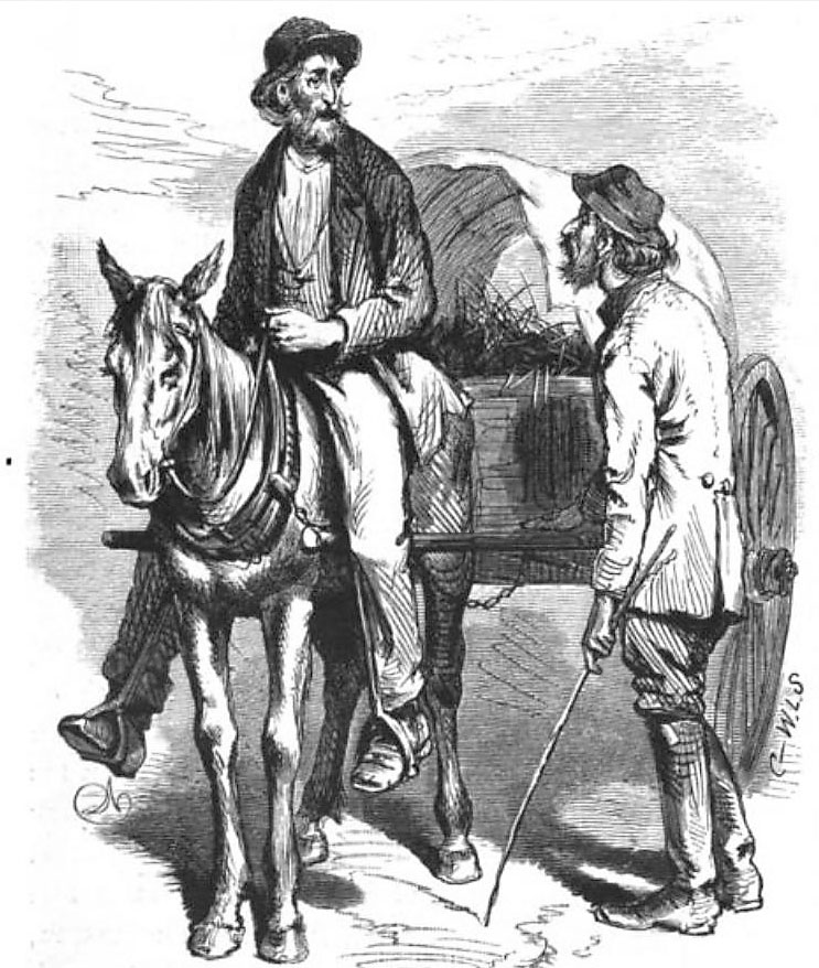 Caption:"A pair of Georgia crackers." 1873. "The Georgia "cracker" is eminently shiftless; he seems to fancy that he was born with his hands in his pockets, his back curved, and his slouch hat crowded over his eyes, and does his best to maintain this attitude forever. Quarrels, as among the lower classes generally throughout the South, grow into feuds, cherished for years, until some day, at the cross-roads, or the country tavern, a pistol or a knife puts a bloody and often a fatal end to the difficulty."